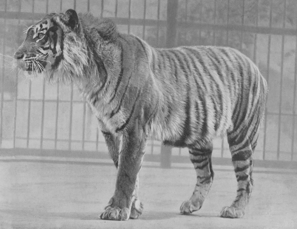 Javan or Malay Tiger in London Zoo. From image: 1. Infeltiger, Felis tigris sondaica Fitz. 1/10 nat. Gr., s. S. 67. - F. W. Bond - London phot. From source [1] : MALAY TIGER London Zoo Animal, Photo by F.W. Bond. From the Gardens of the Zoological Society of London, Regent's Park, N.W.